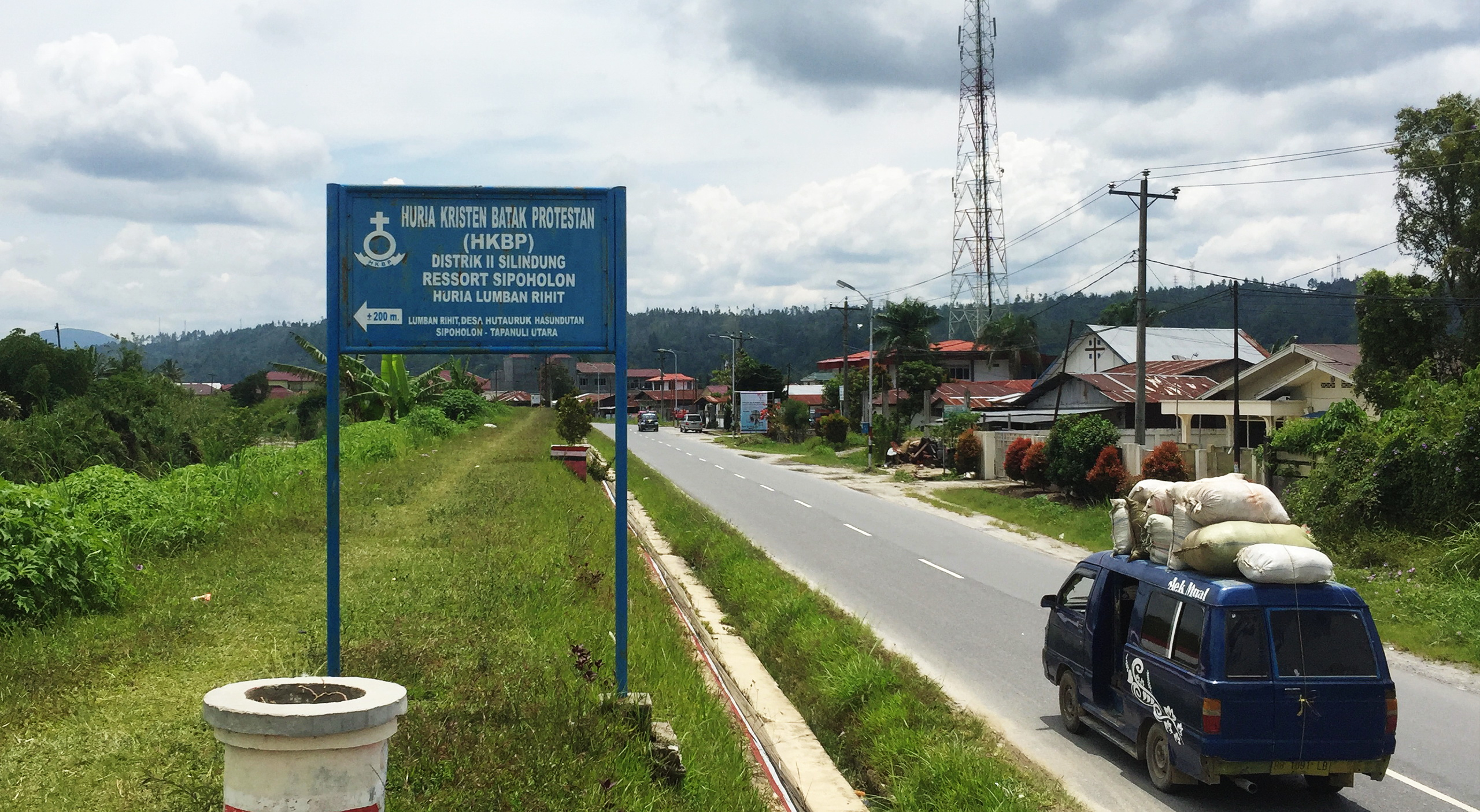 HKBP Lumban Rihit, Church in Lumban Rihit, Sipoholon, North Tapanuli